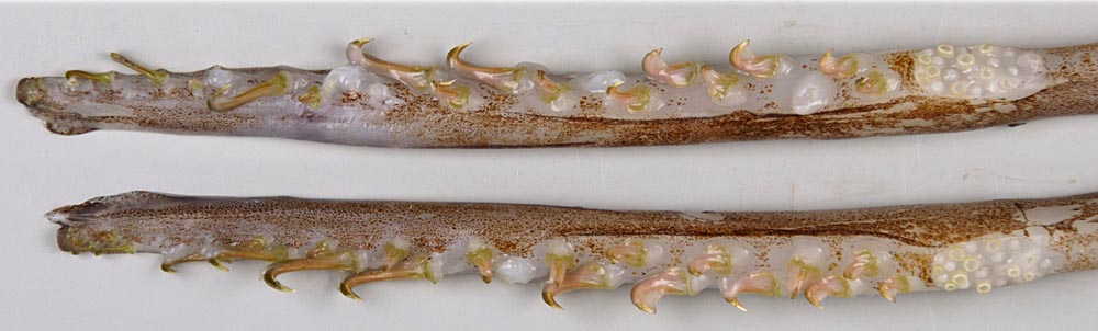 Onykia robsoni tentacular clubs (immature female, 260 mm ML, from Chatham Rise near New Zealand at 42°47'S, 179°45'W, caught in bottom trawl at 1000 m depth)